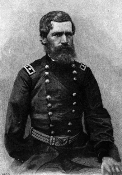 Portrait of Major-General O. O. Howard. Engraved by Caroline A. Powell. Courtesy of The Century Co.